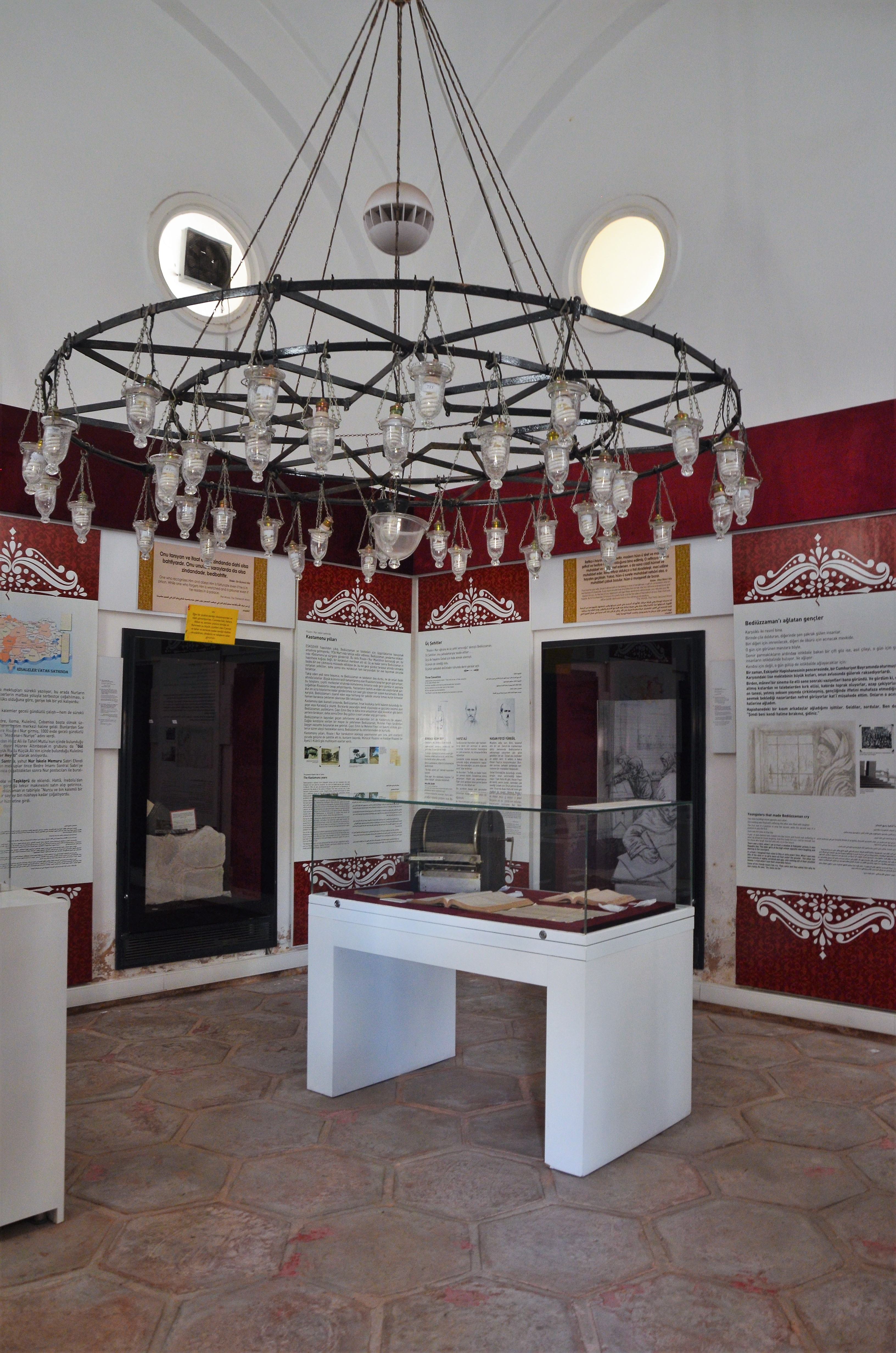 A view from Bediüzzaman Museum at Rüstem Pasha Medrese in Fatih, Istanbul Turkey.